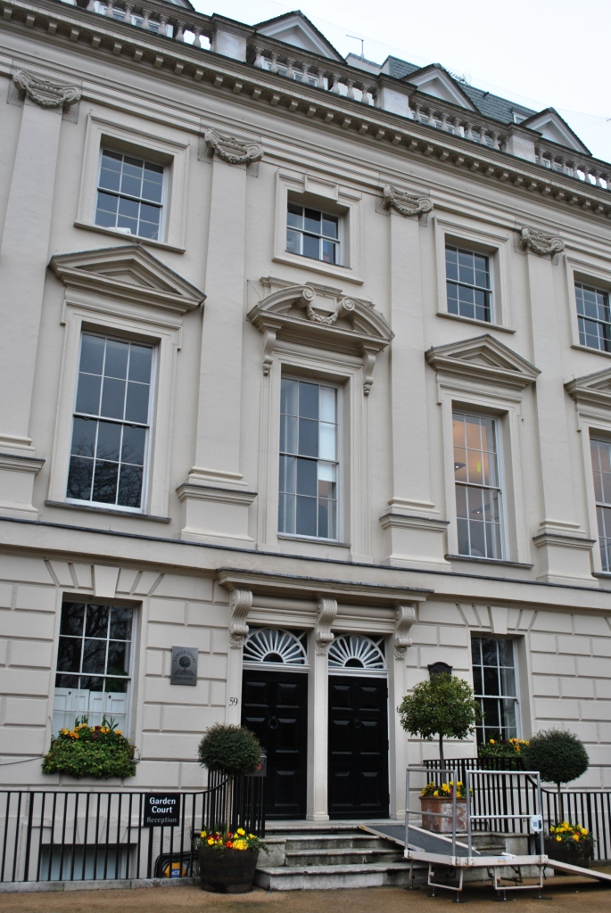 Lindsey House and Attached Railings, Piers and Lamp Brackets